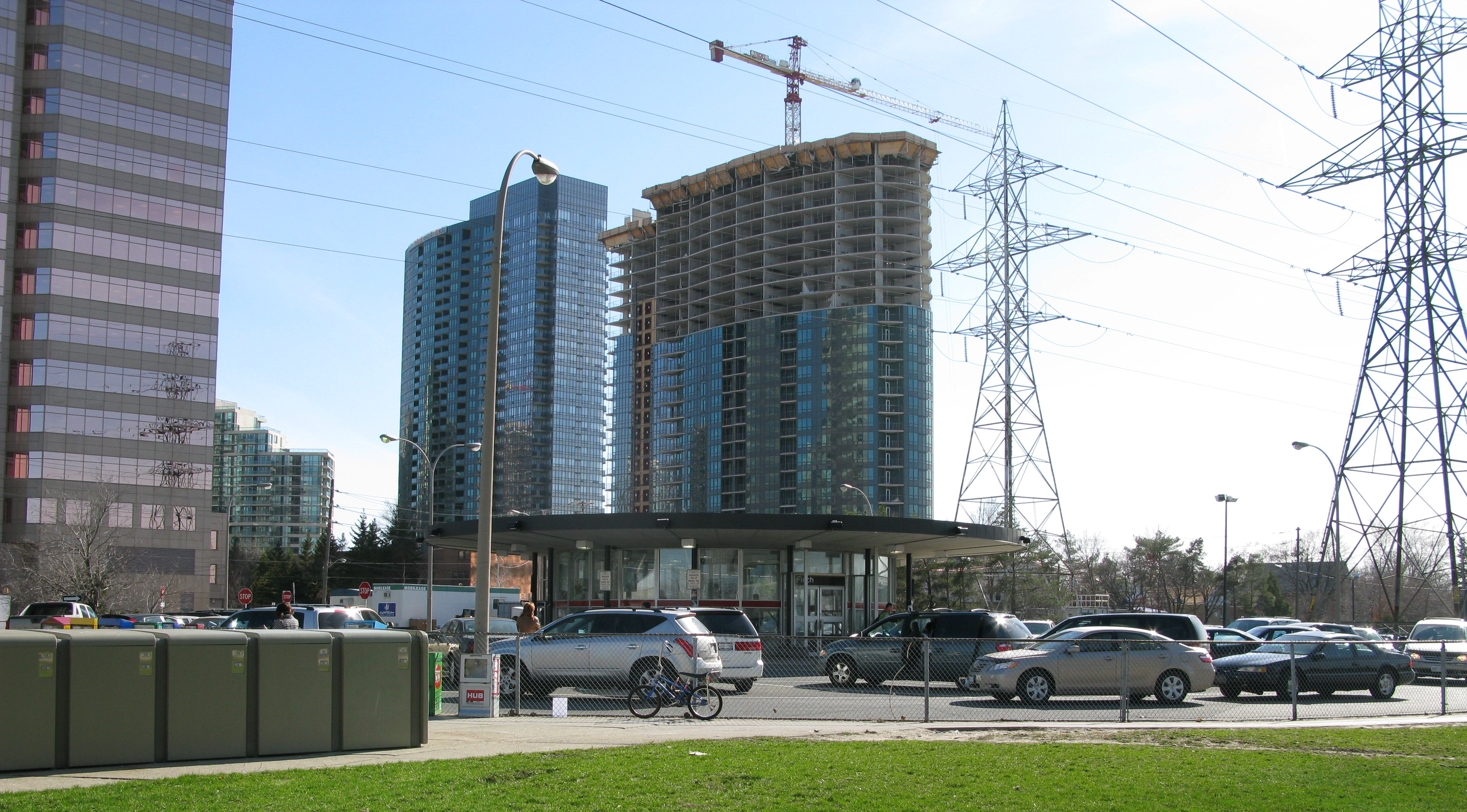 TTC Finch Station, 'Kiss-N-Ride'